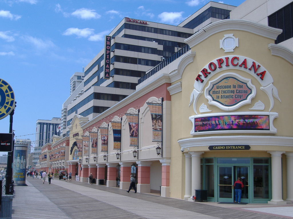 The Tropicana from the Boardwalk.